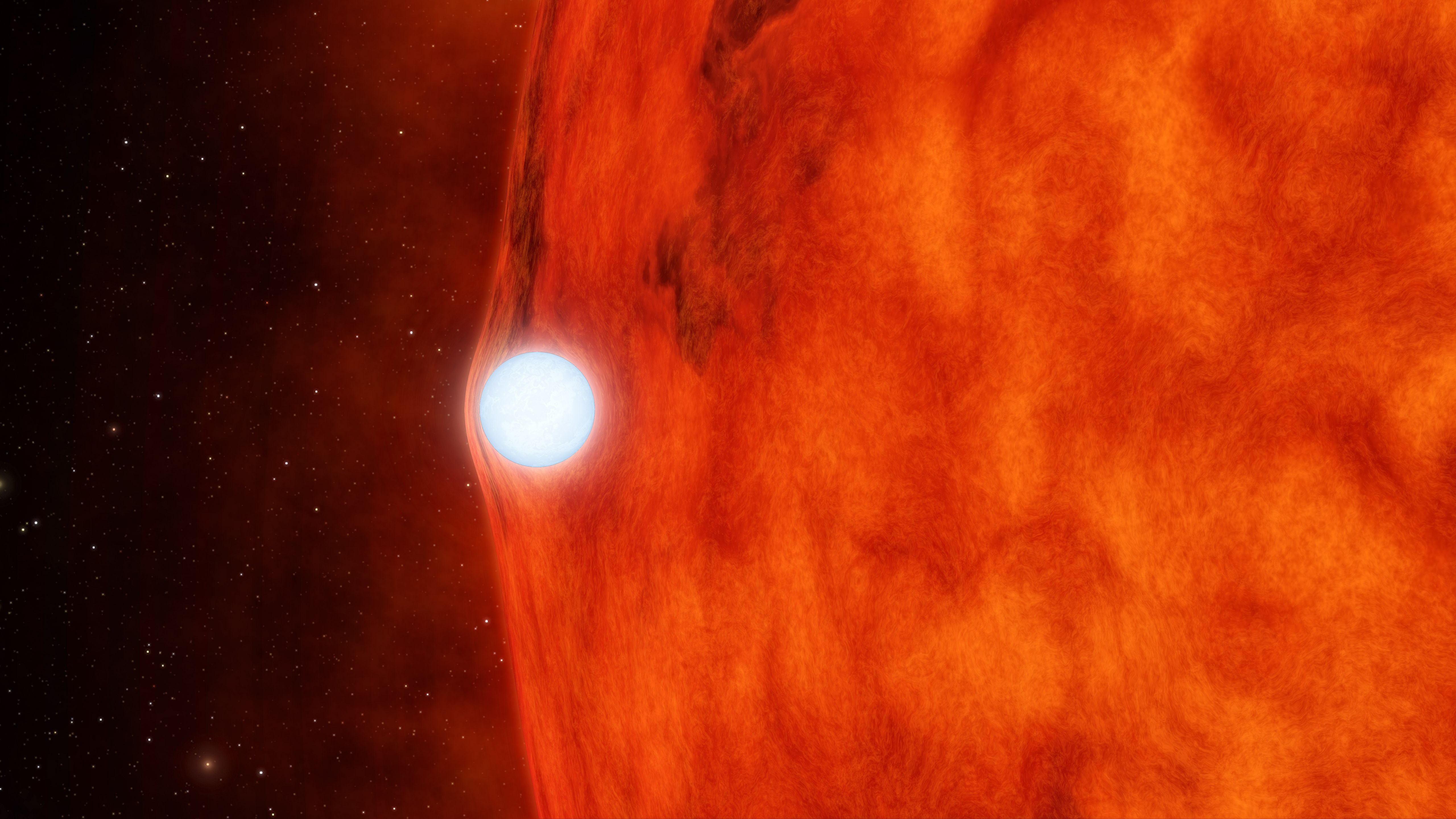 This artist's concept depicts a dense, dead star called a white dwarf crossing in front of a small, red star. The white dwarf's gravity is so great it bends and magnifies light from the red star. NASA's Kepler space telescope observed this effect in a double-star system called KOI-256 by monitoring changes in the red star's brightness. The red dwarf star is cooler and redder than our yellow sun. Its companion is a white dwarf, the burnt-out core of a star that used to be like our sun. Though the white dwarf is about the same diameter as Earth, 40 times smaller than the red dwarf, it is slightly more massive. The two objects circle around each other, but because the red dwarf is a bit less massive, it technically orbits the white dwarf. Kepler is designed to look for planets by monitoring the brightness of stars. If planets cross in front of the stars, the starlight will periodically dip. In this case, the passing object turned out to be a white dwarf, not a planet. The finding was serendipitous for astronomers because it allowed them to measure the tiny "gravitational lensing" effect of the white dwarf, a rarely observed phenomenon and a test of Einstein's theory of relativity. These data also helped to precisely measure the white dwarf's mass.